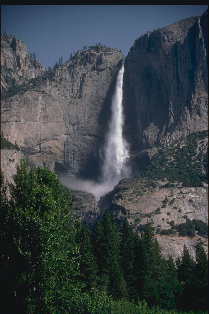 Yosemite Falls